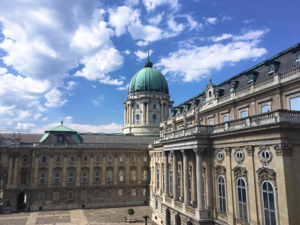 view from the courtyard to the Buda Castle in Budapest